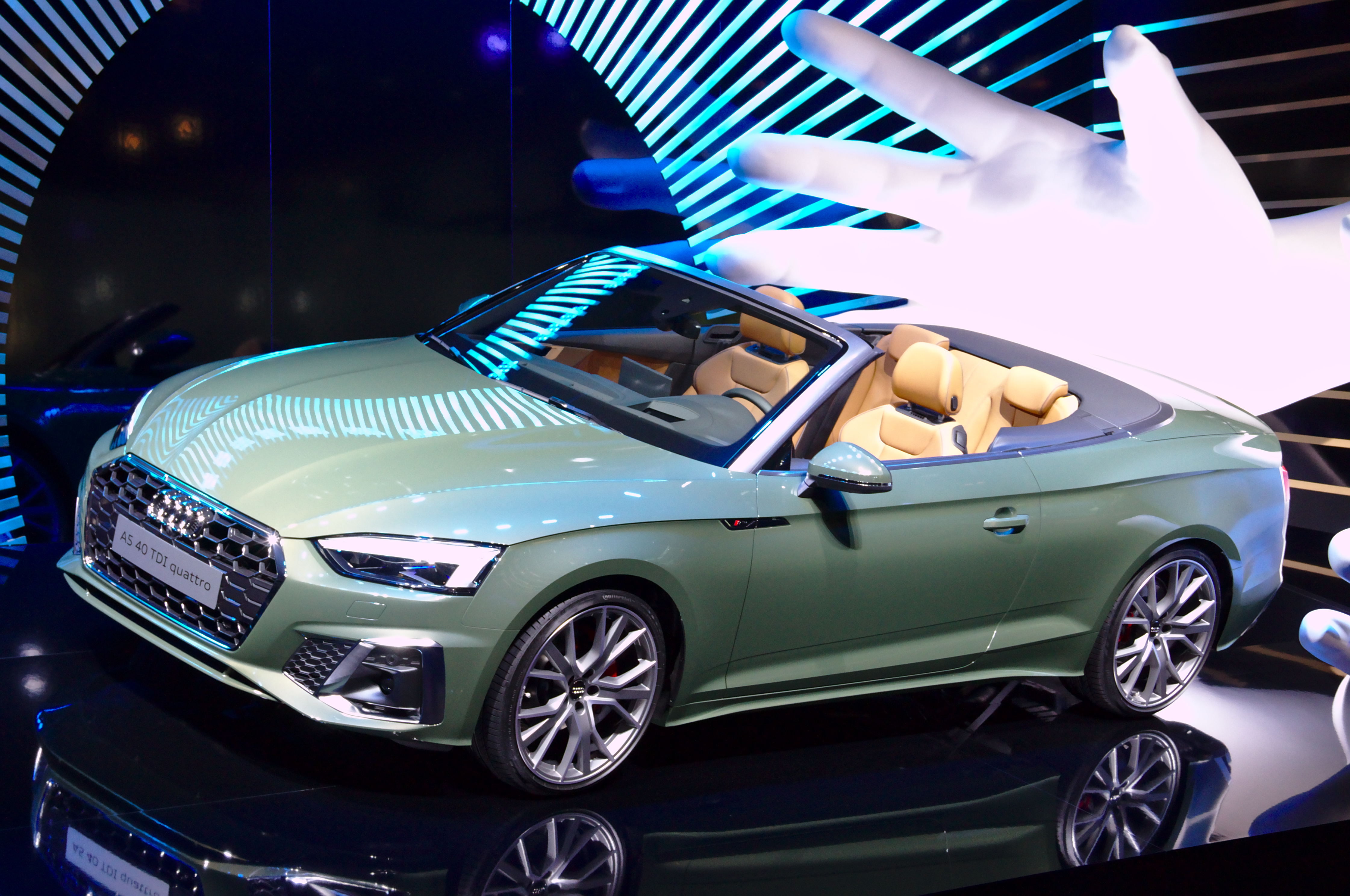 Audi_A5_Cabriolet_F5 at IAA 2019